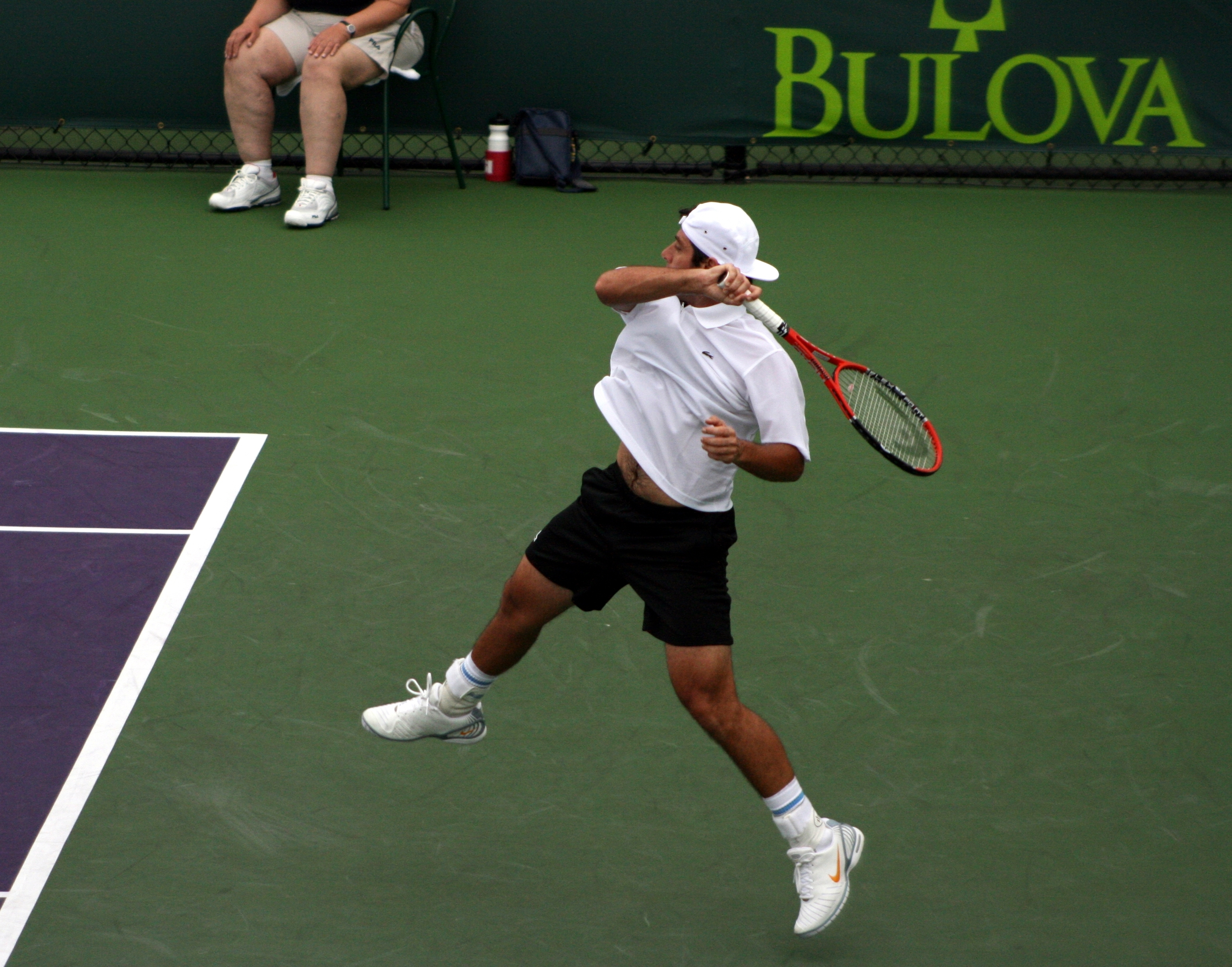 Sebastian Grosjean at the Sony